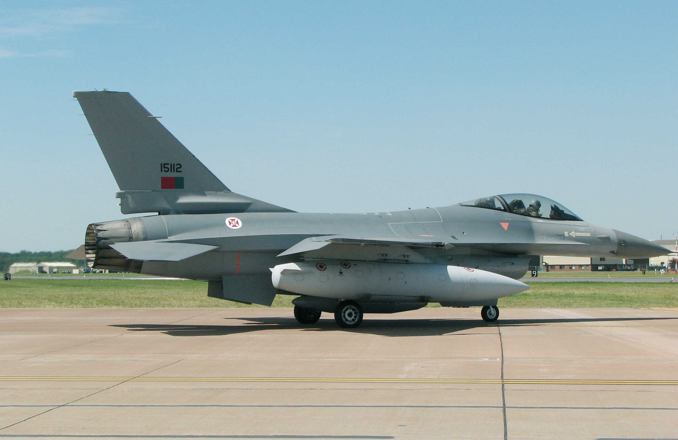 F-16A single seat Fighting Falcon (identifier 15112) of the Portuguese Air Force taxis for takeoff at the Royal International Air Tattoo, Fairford, Gloucestershire, England. Photographed by Adrian Pingstone on July 17th 2006 and released to the public domain.